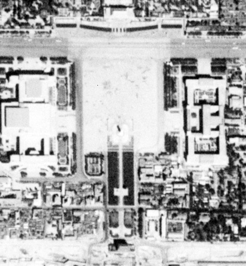 Tiananmen Square. Spatial tentatively corrected. 中文（中国大陆）: 天安门广场。空间上尝试性矫正过。